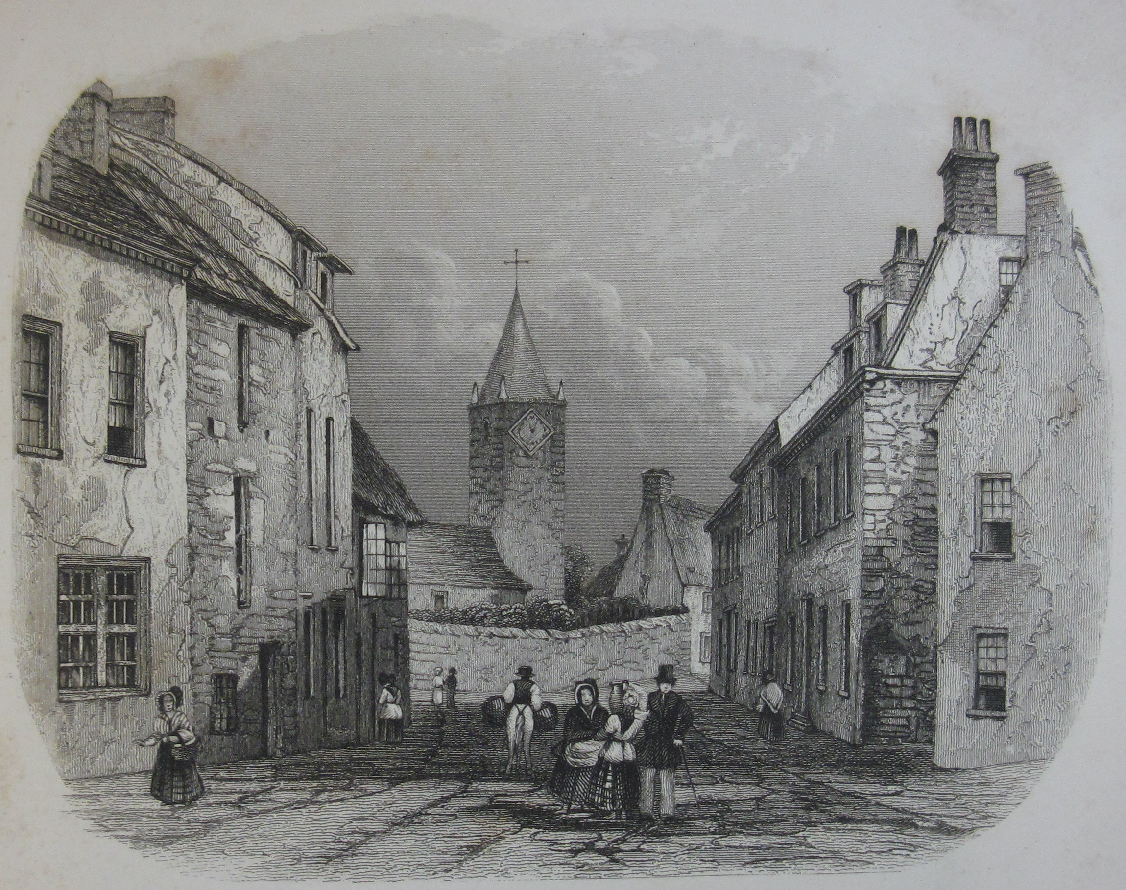 Illustration from Historical and Topographical Description of the Channel Islands (1840) by Robert Mudie - "La Husay, St, Ann's, Alderney"